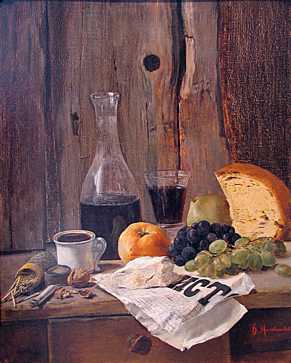 Đorđe Milovanović, Still-life with Bread , 1877, National Museum of Serbia